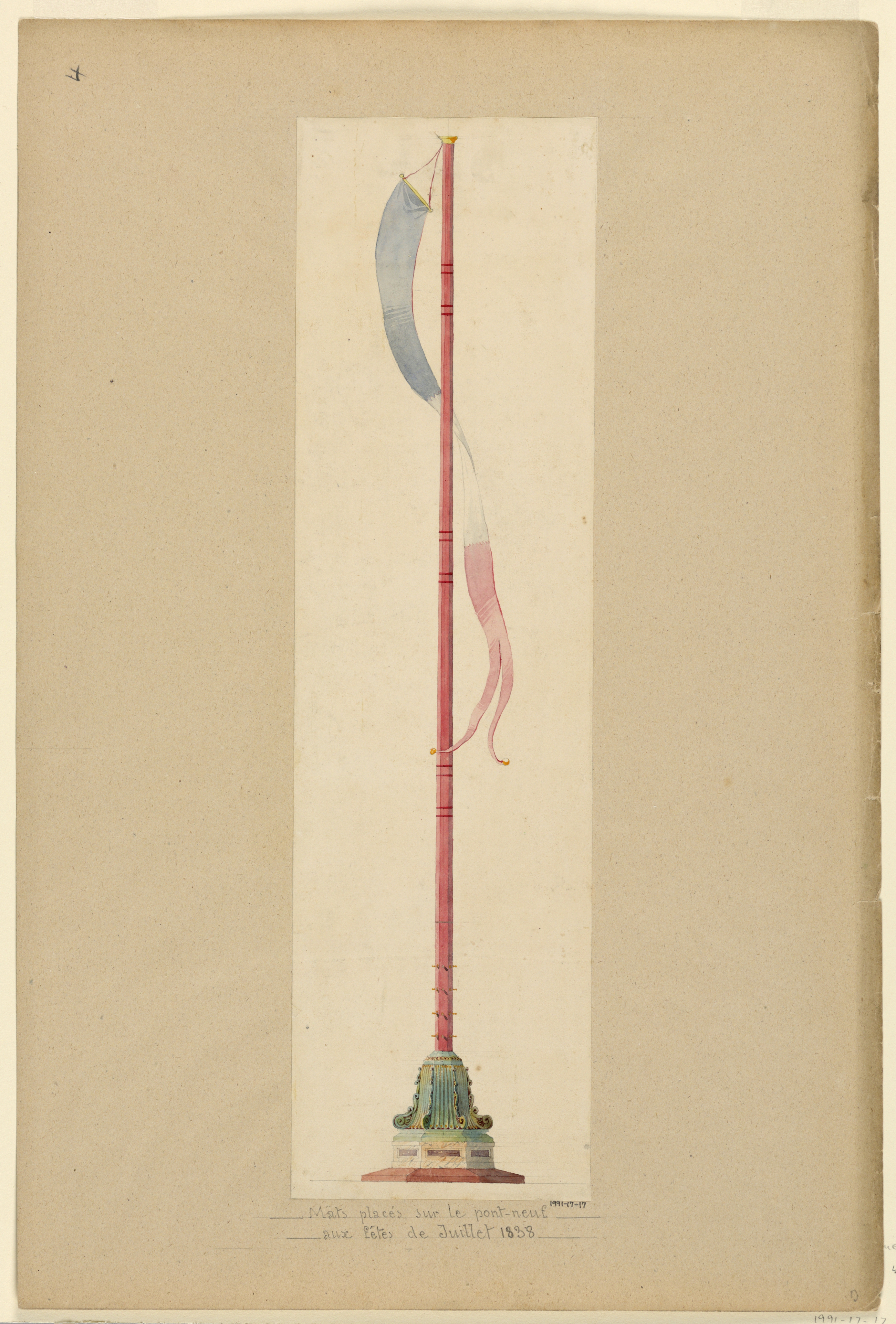 Design for a red flagpole with crimson banding, terminating at the bottom with a blue-green bell-shaped base, which rests in turn on a red and white marble polygonal base. The top of the pole is surmounted by a simple gold cap, from which a blue, white and red banner is suspended.